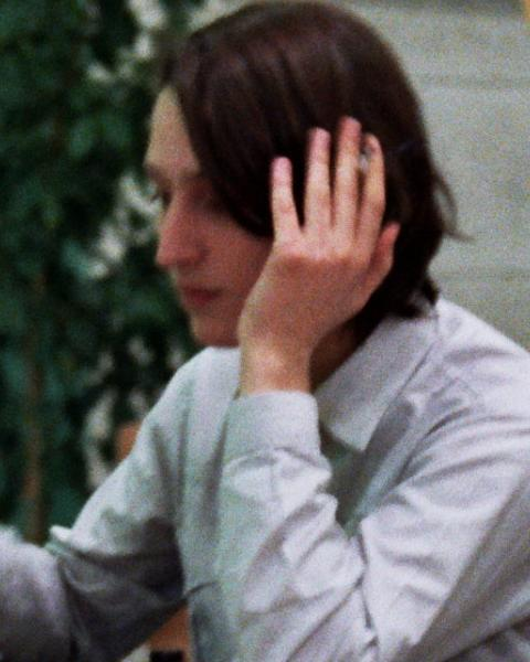 Marcelo Tempone, Junior Chess World Championship 1980 at Dortmund, Photographer Gerhard Hund.